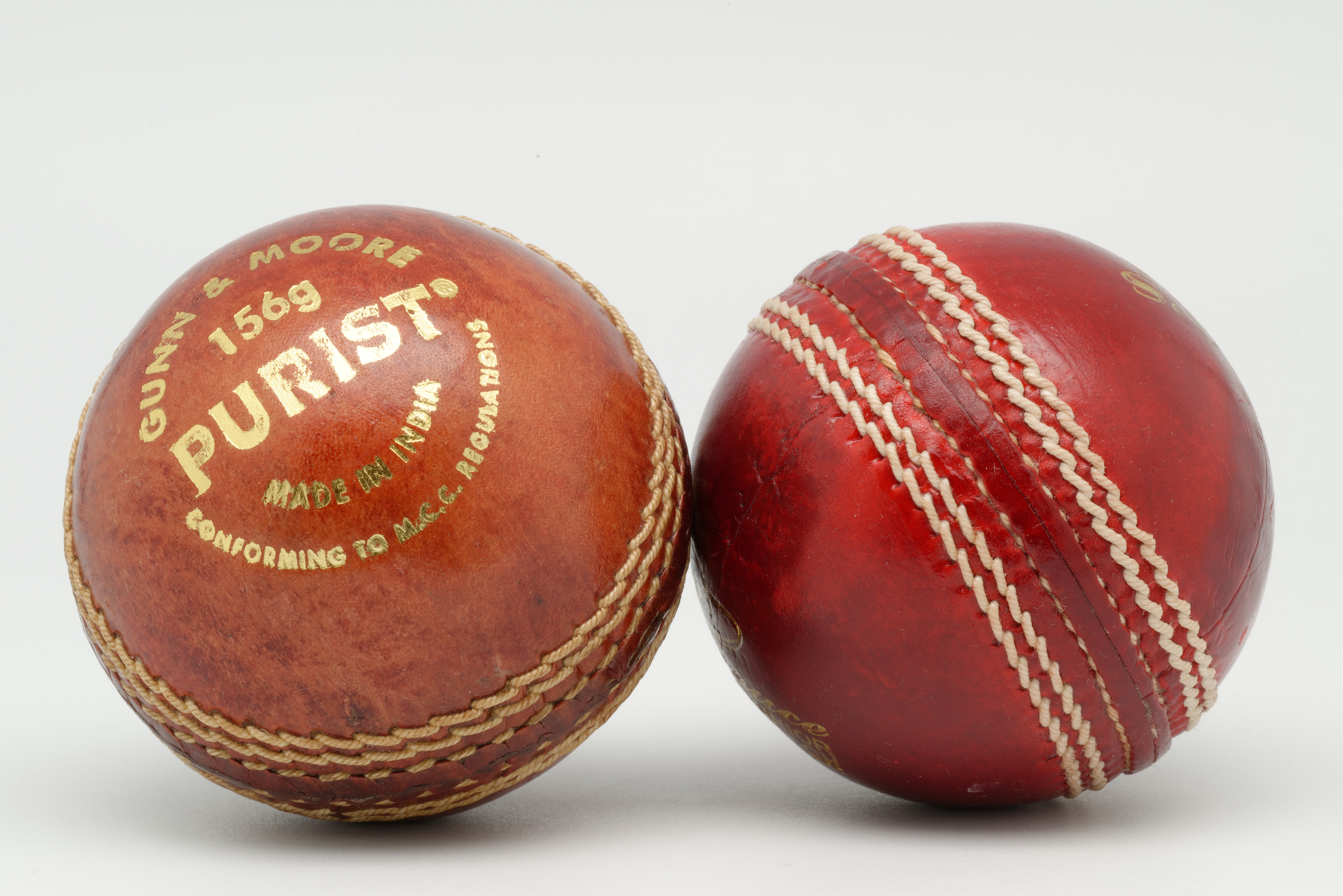 A Gunn & Moore Purist 156g (left) and a Grace match ball junior (right) cricket balls.